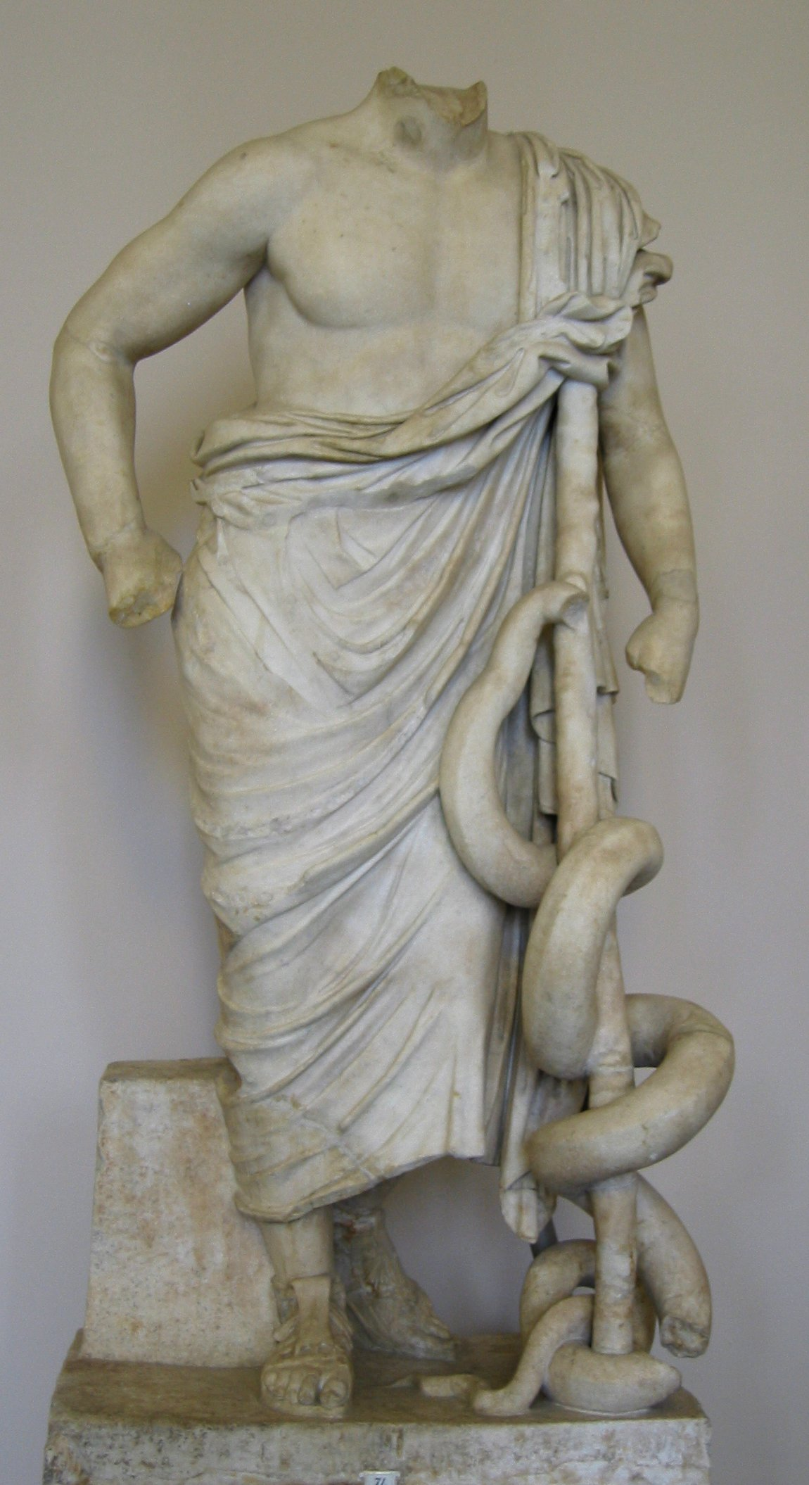 Either a Greek or a Roman statue of Asclepius, in the Pergamonmuseum, Berlin.